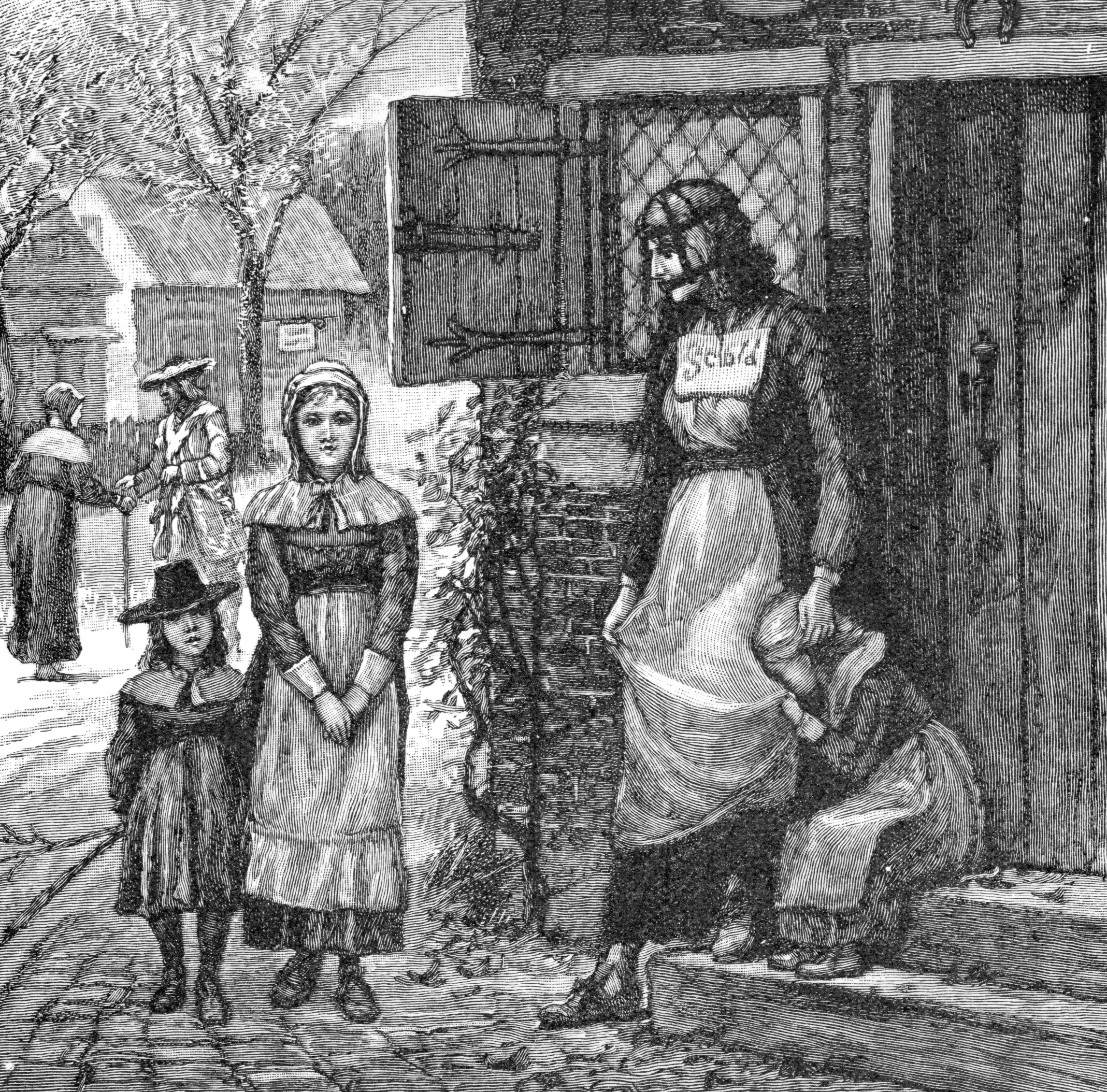 Engraving of a scold's bridle and New England street scene